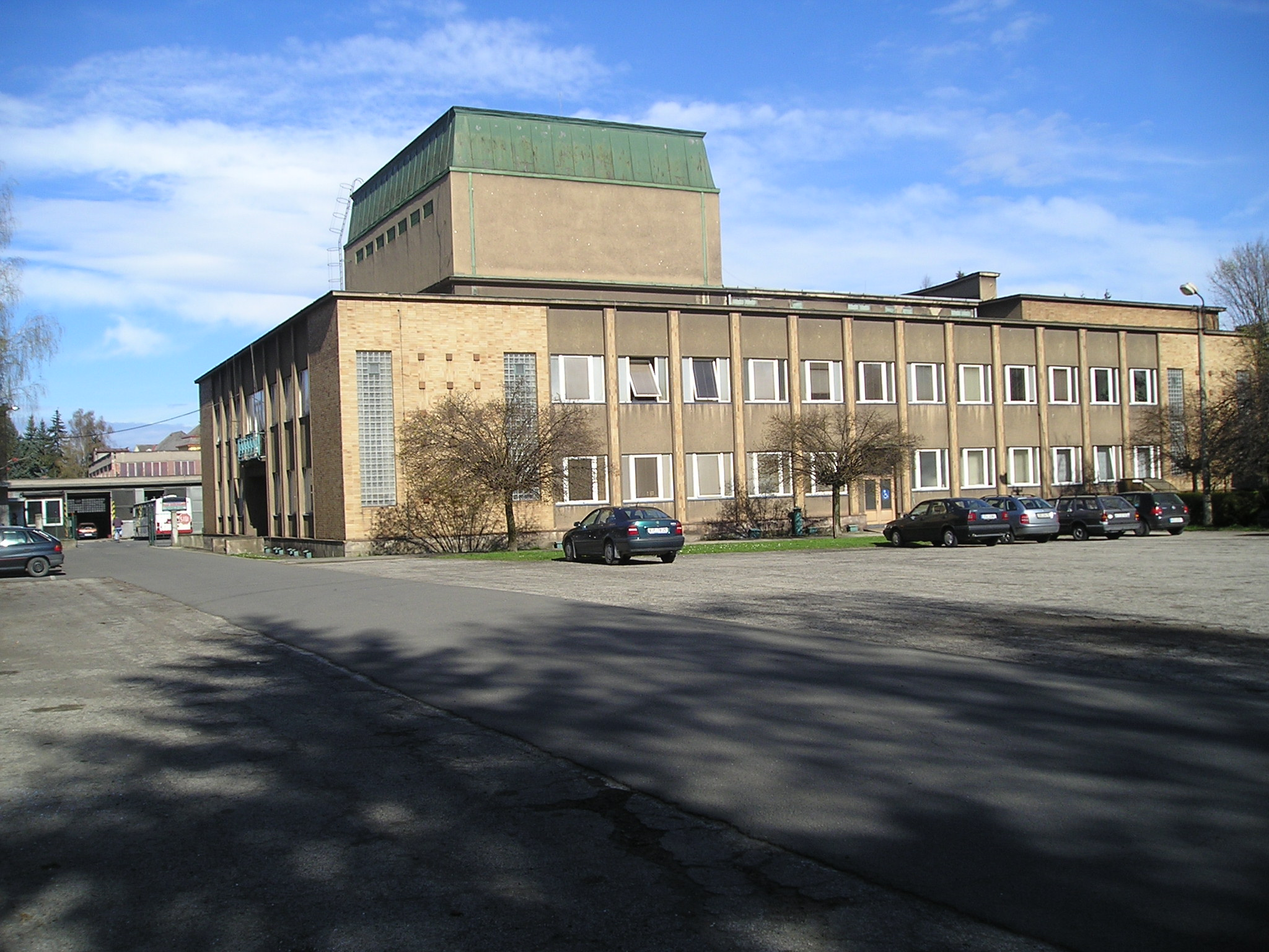 The side of the building of the Těšín Theater